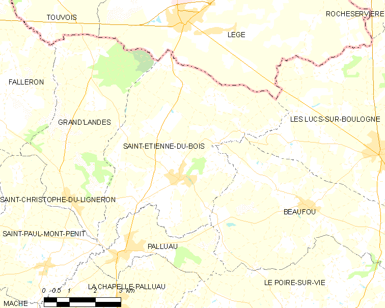 Map of French municipality Saint-Étienne-du-Bois